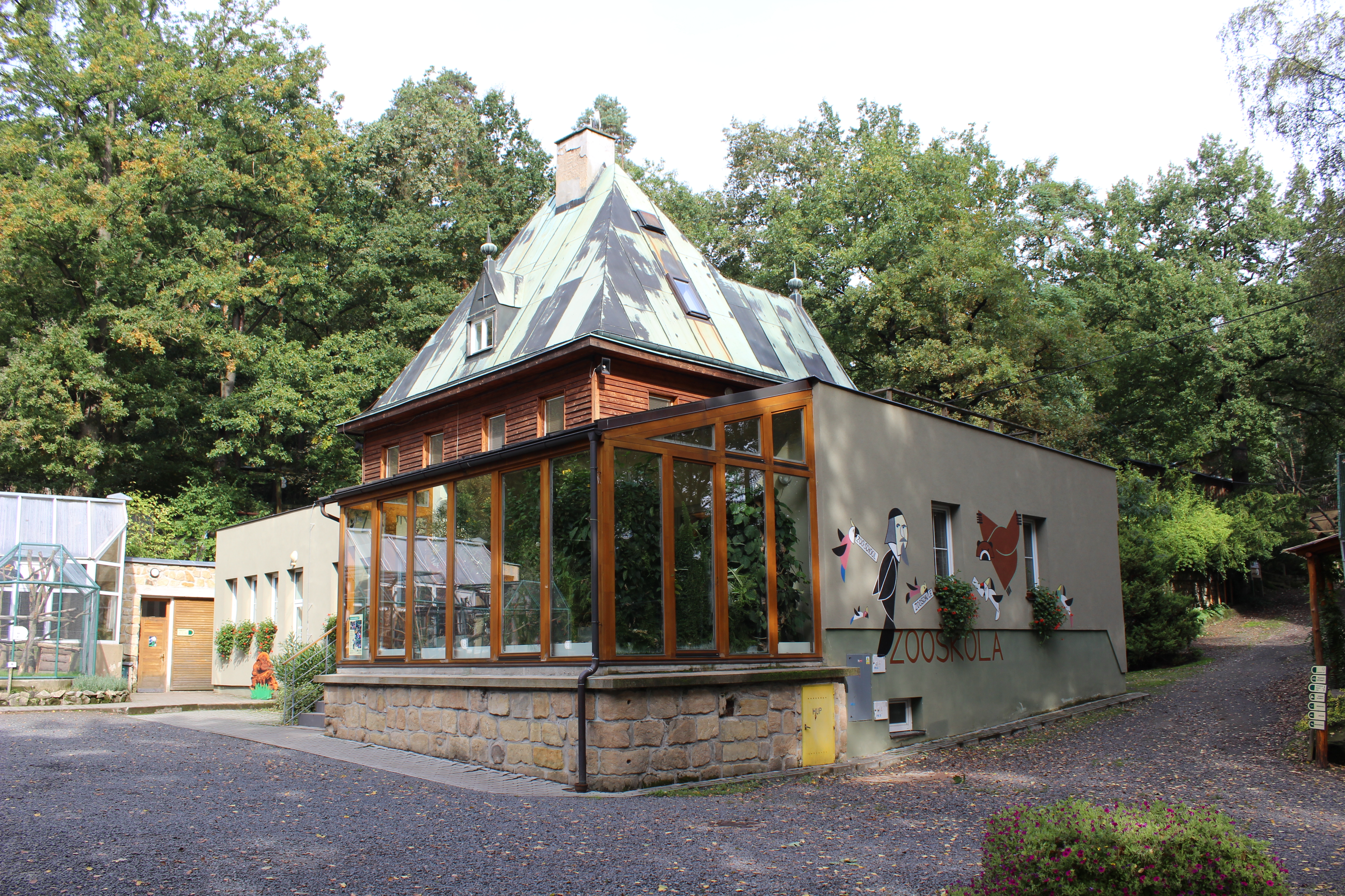 Headquarter of ZOO Děčín, Ústí nad Labem Region, Czech Republic.